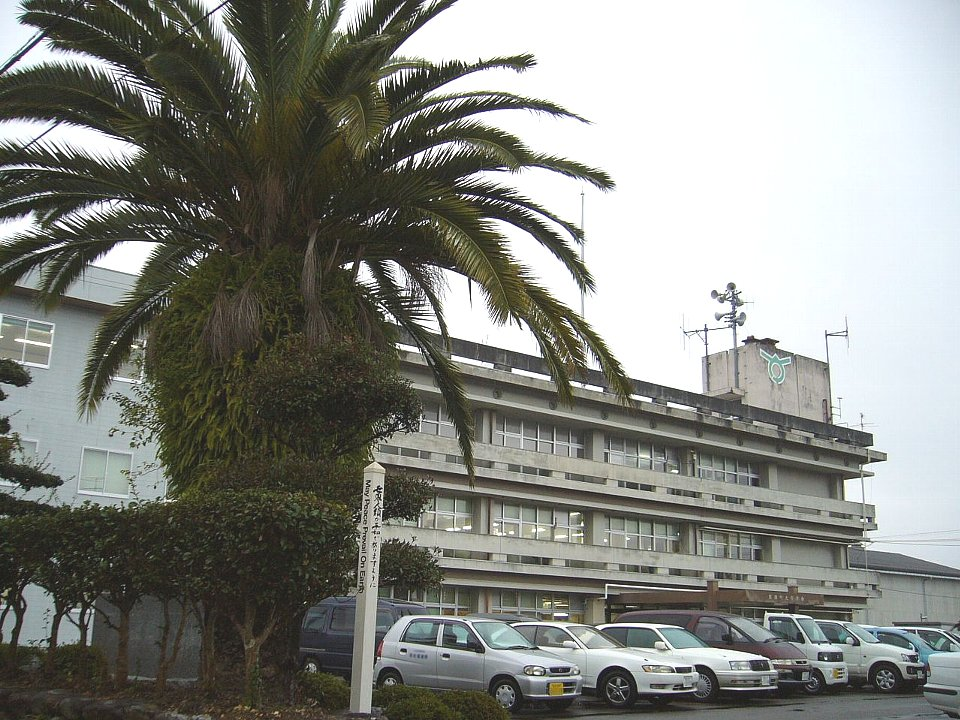 Town office of Kuroshio, Kochi prefecture, Japan.